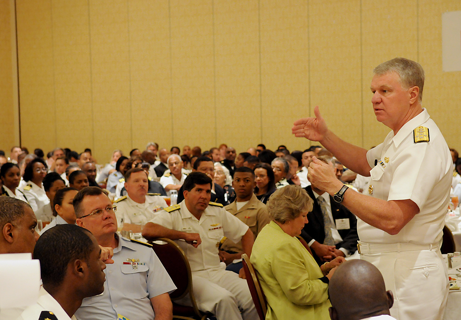 PORTSMOUTH, Va. (July 24, 2008) Chief of Naval Operations (CNO) Adm. Gary Roughead speaks during the 36th Annual National Naval Officers Association (NNOA) professional development and training conference. The CNO spoke on the importance of diversity in the sea services and how the Navy will sustain a force through the fair, equal, and ethical treatment of every member. (U.S. Navy photo by Mass Communication Specialist 2nd Class R.J. Stratchko/Released)